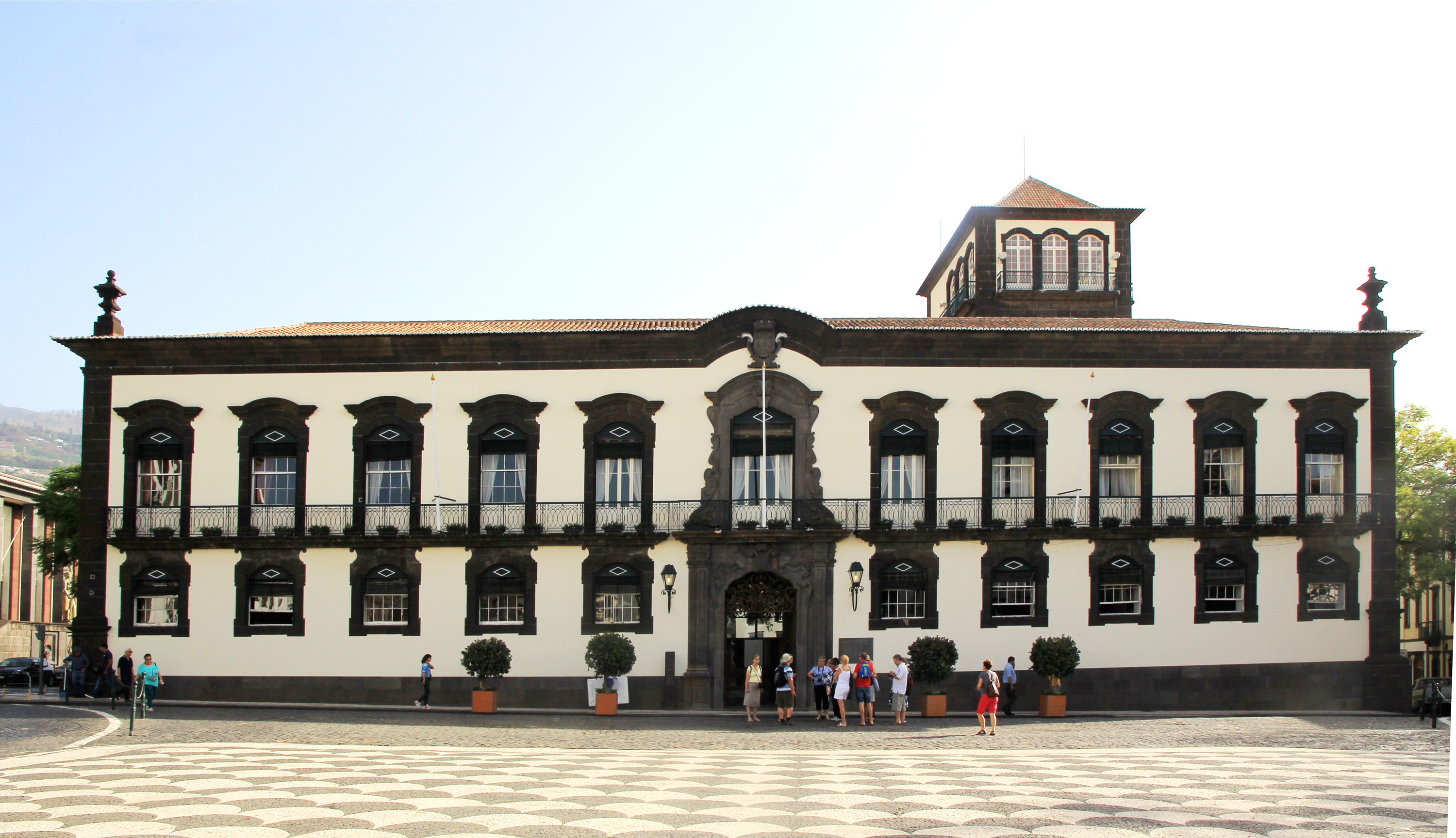 Câmara Municipal do Funchal (Funchal City hall) on square Praça do Município in the centre of city Funchal, Madeira 2016